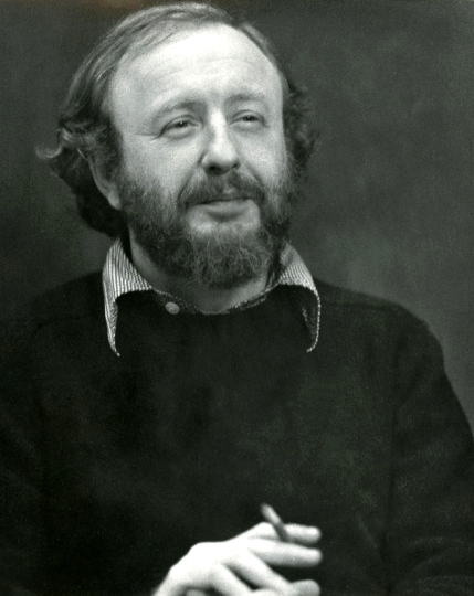 Portrait of Albert Kish